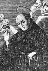 Święty Jan Józef od Krzyża, John Joseph of the Cross